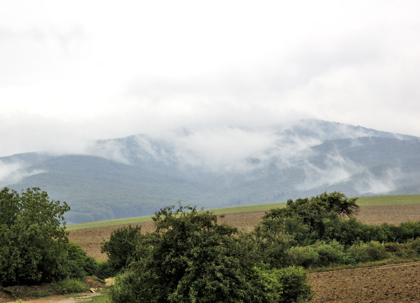 Fractus clouds over the Mount Javorie (729 m, Považský Inovec)